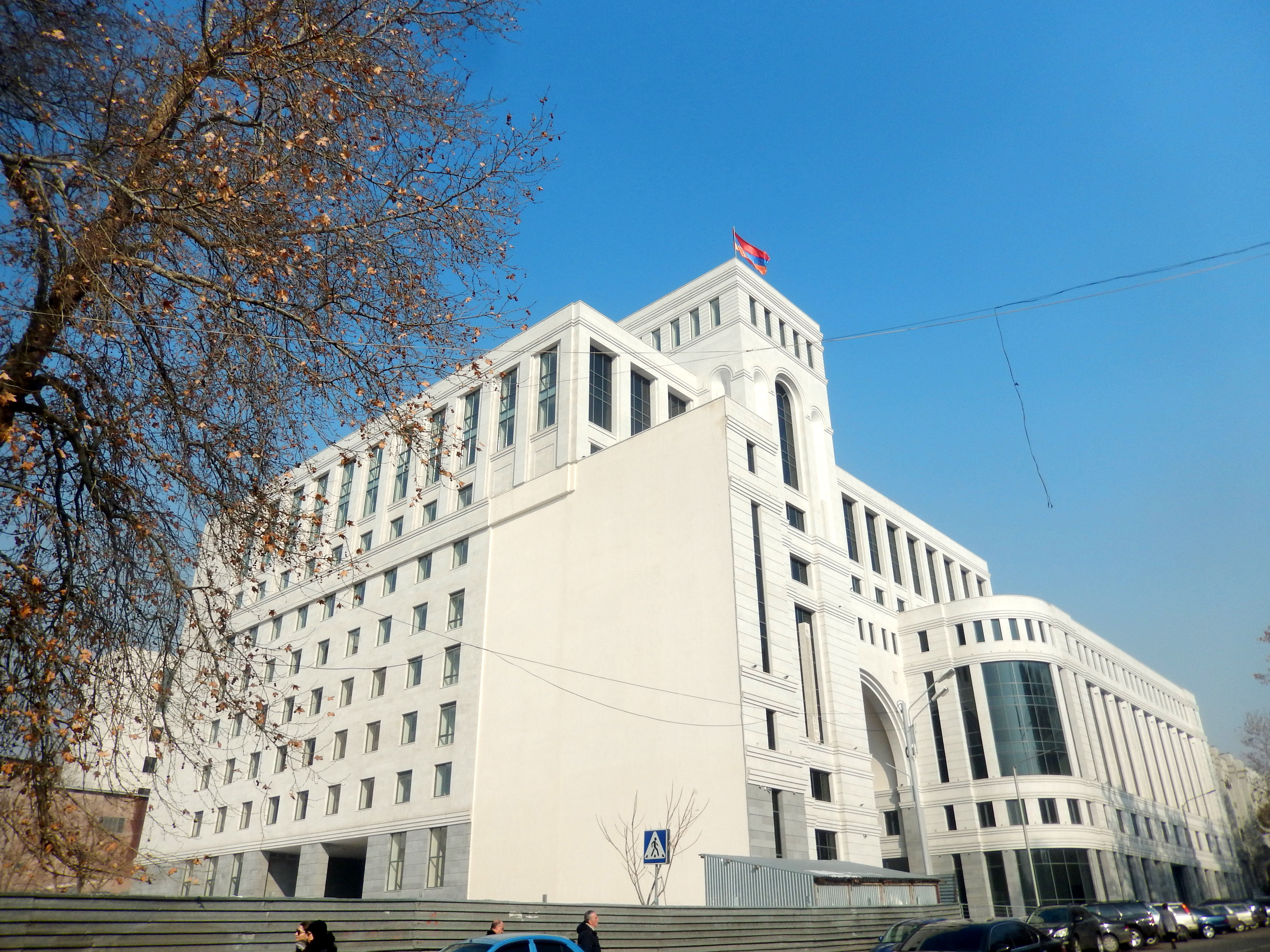 White house of Yerevan